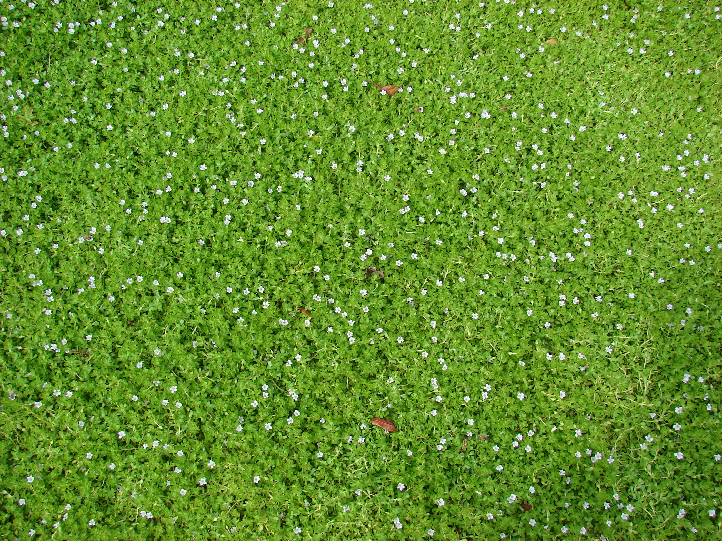 Bacopa monnieri (flowering habit). Location: Maui, Kanaha Beach